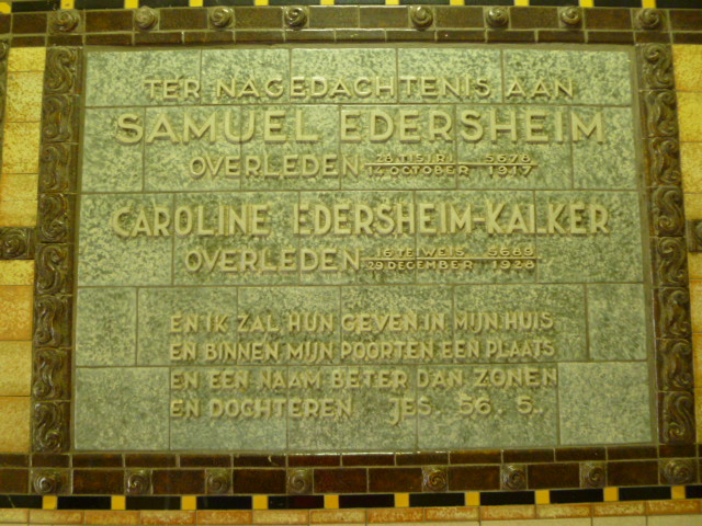 The Hague (the Netherlands), Tile tableau in memory of Samuel Edersheim en Carolina Edersheim-Kalker, who made the building of the Jewish orphanage Pletterijstraat 66 possible